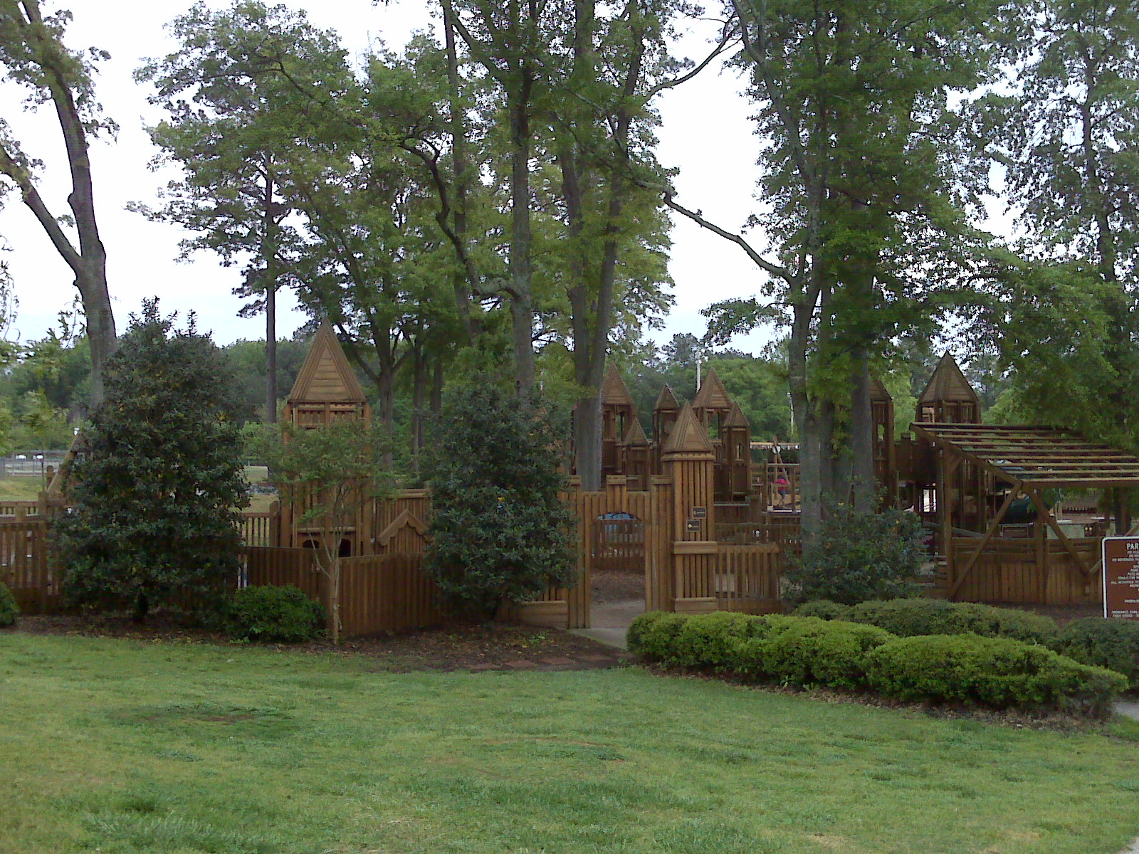 Picture taken at Wills Park in Alpharetta, Georgia, United States